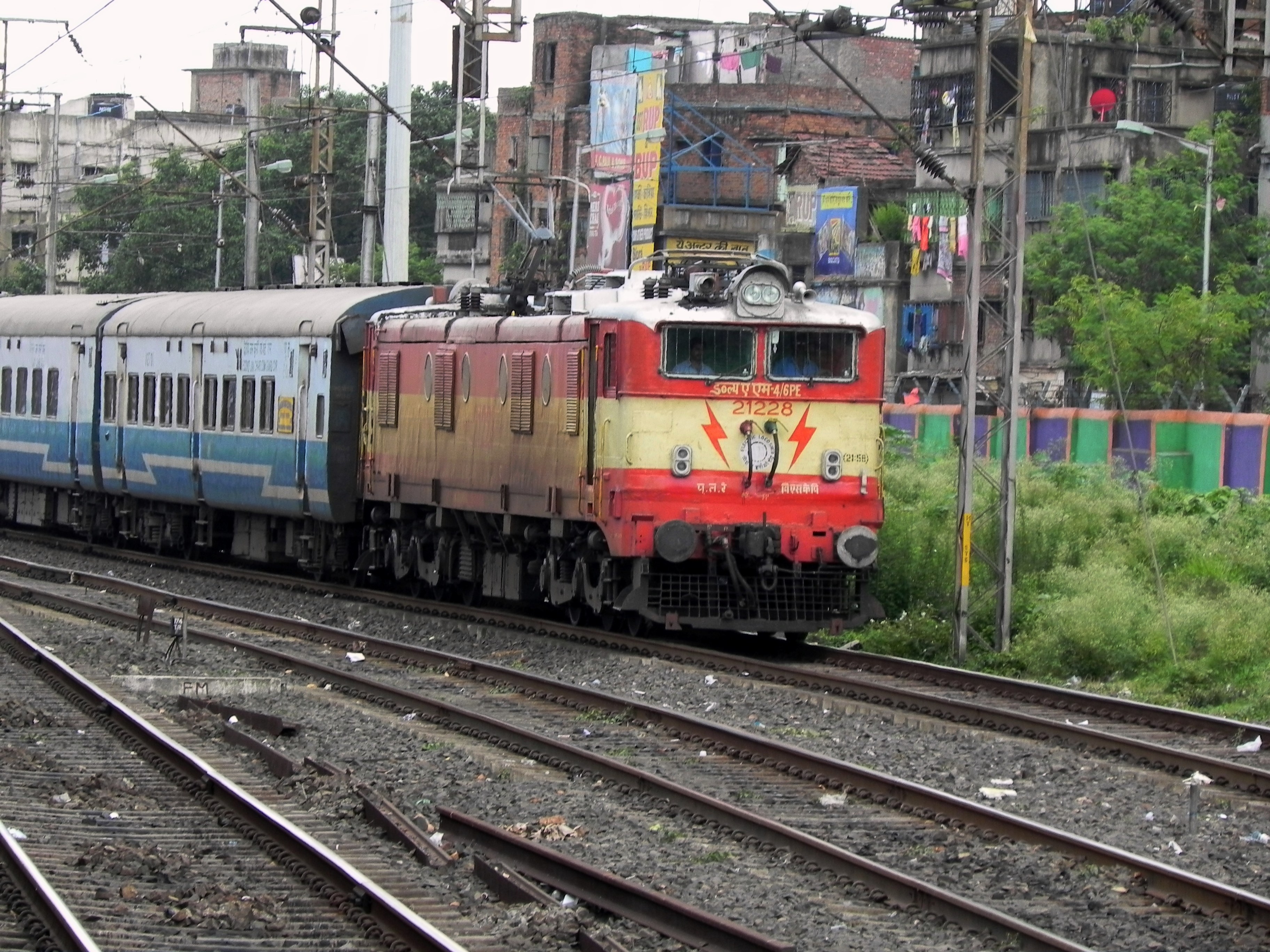 VSKP based WAM-4 loco - 21228 showed up with Bhubaneswar (BBS) bound 12073 (Howrah-Bhubaneswar) Jan Shatabdi Express.